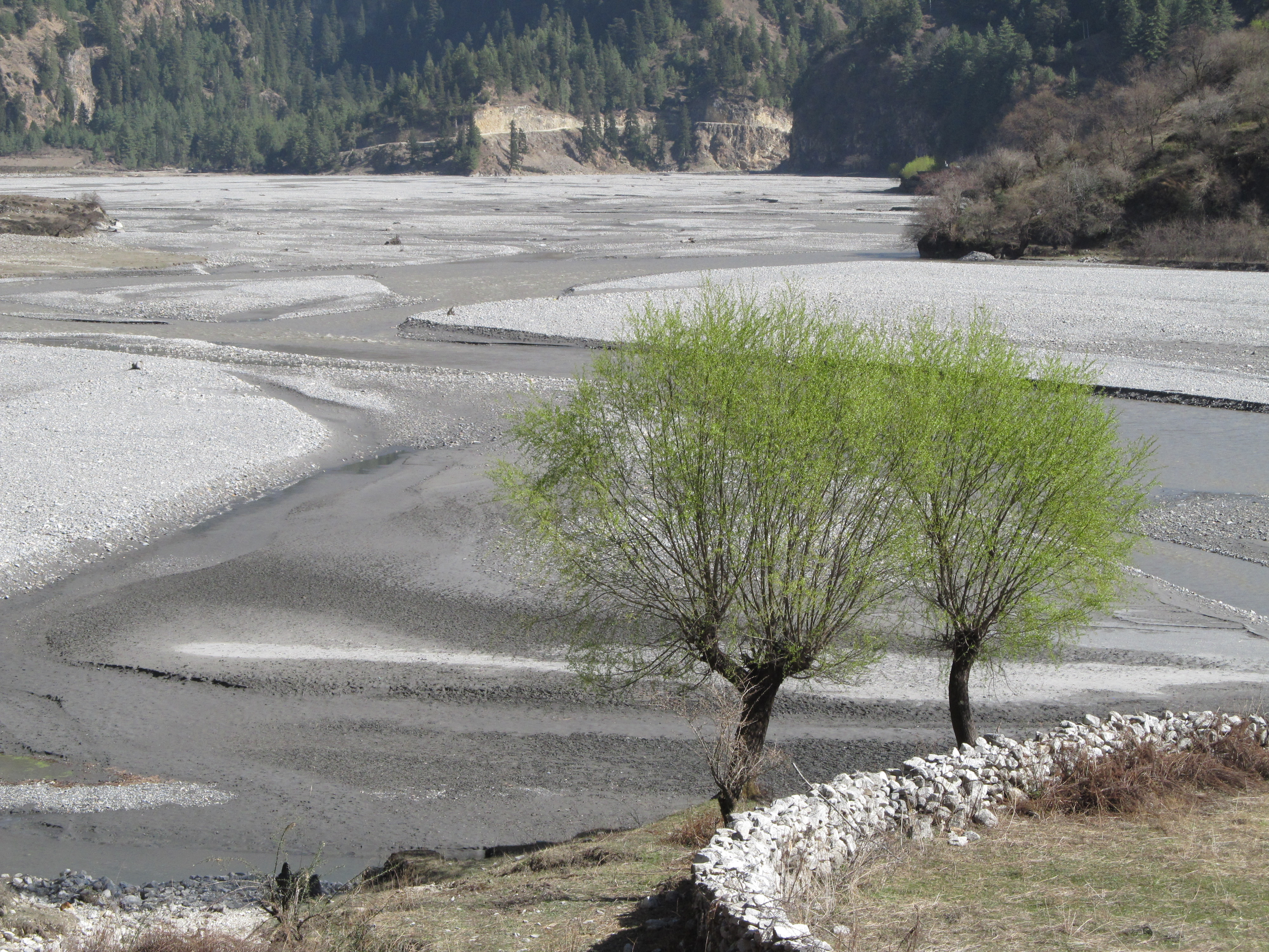 Spring is arriving along the Kali Gandaki between Lete and Marpha, looking upstream Unknown